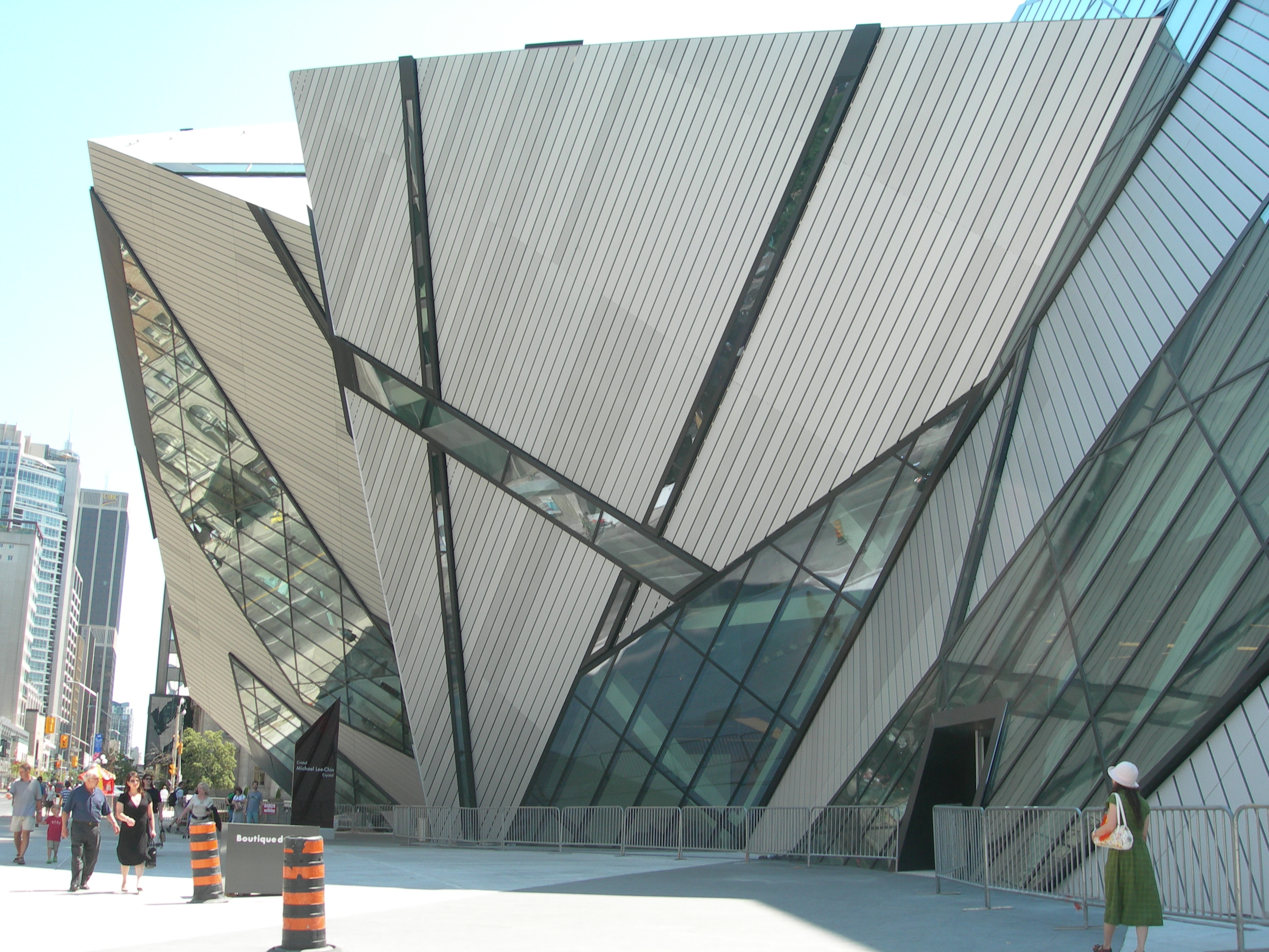 The view of Royal Ontario Museum's Michel Lee-Chin Crystal from west of Bloor Street West. (43°40'5.90"N 79°23'43.87"W)